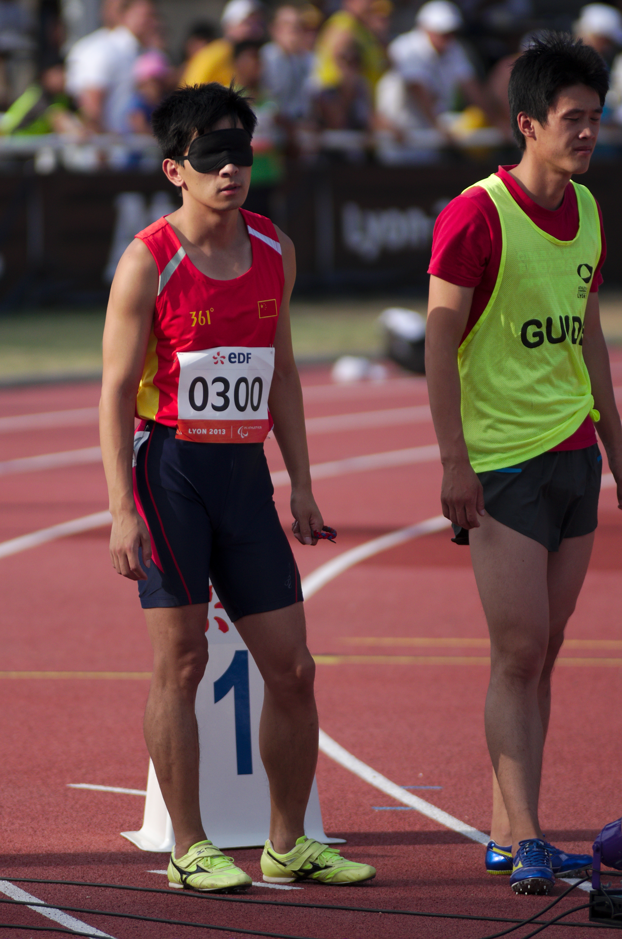 Lei Xue and guide Lin Wan of China preparing for the Men's 100m - T11